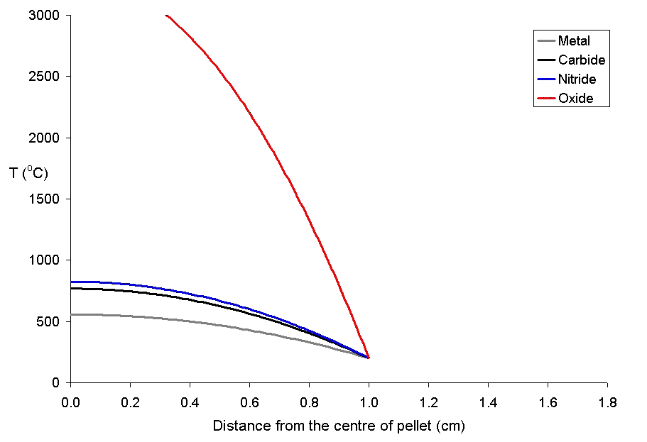 Nuclear fuel temp calcs